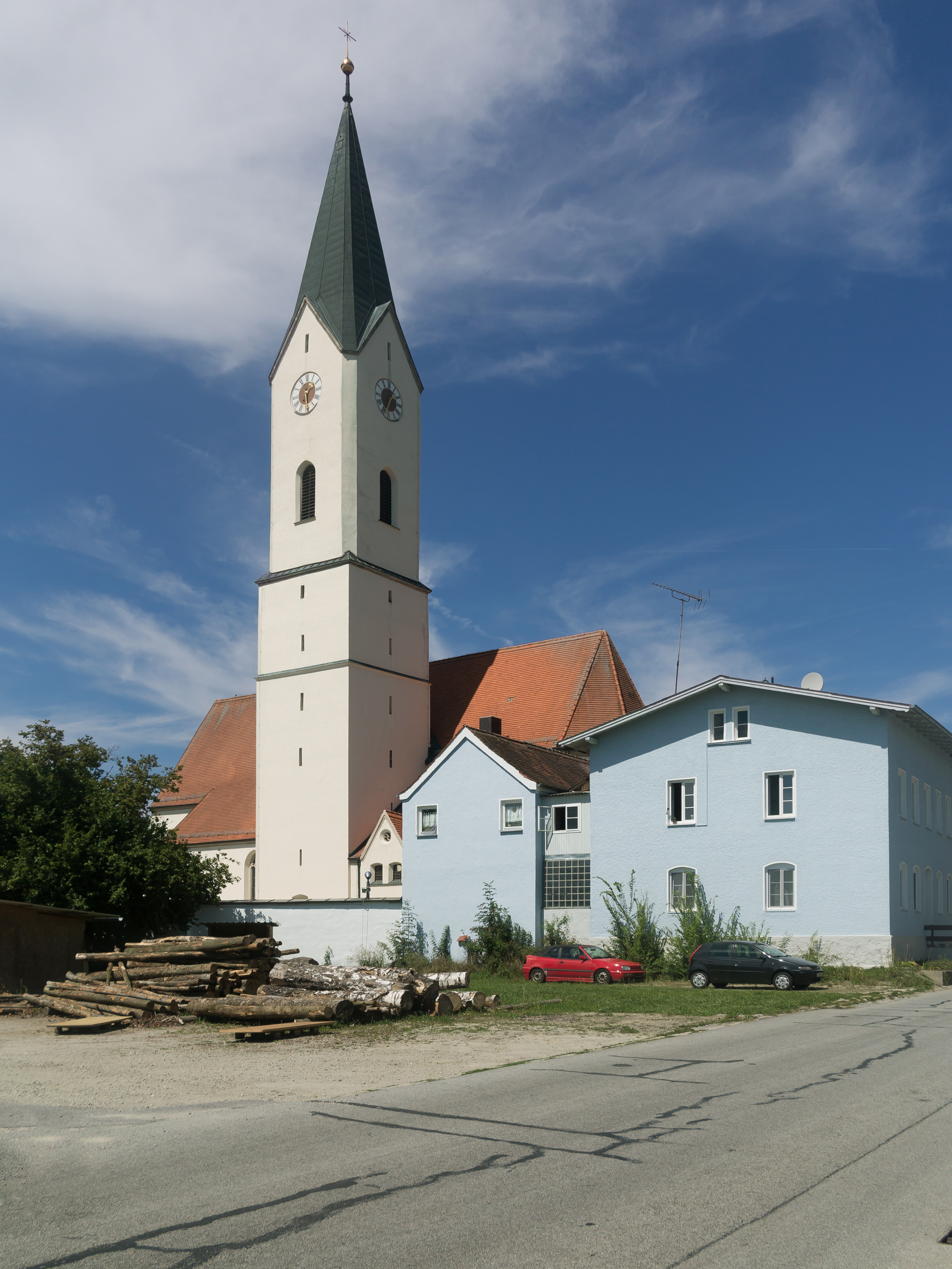 Karpfham, church: die katholische Pfarrkirche Mariä HimmelfahrtThis is a photograph of an architectural monument.